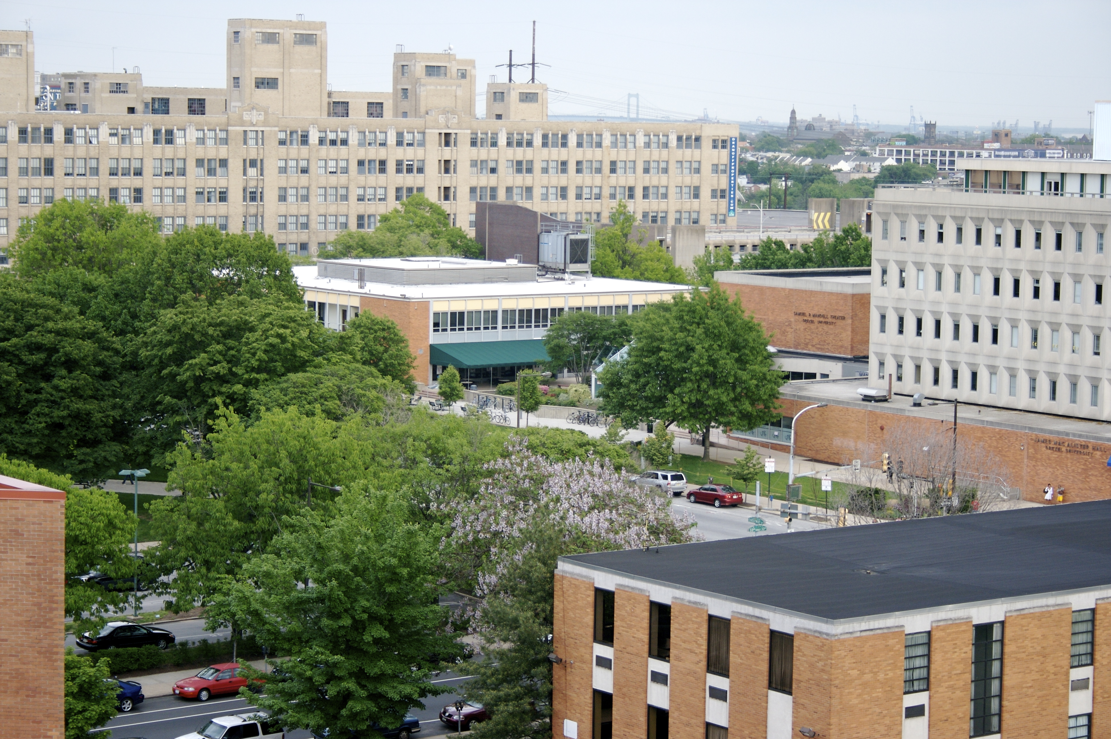 The southern (below Market Street) portion of Drexel University's campus, featuring these buildings: The Creese Student Center, The Handschumacher Dining Hall (entrance), Mandell Theater, Macallister Hall, The Drexel University Bookstore, and The Newman Center